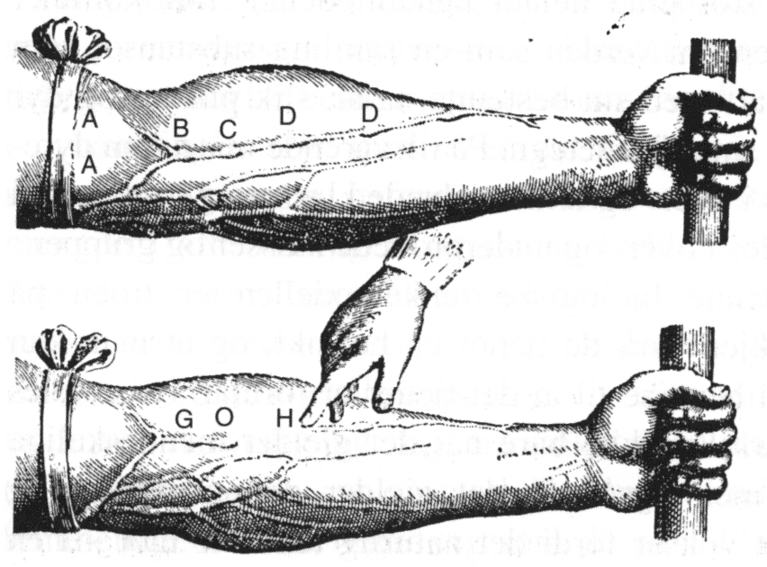 Diagram of blood vessels in the human arm.